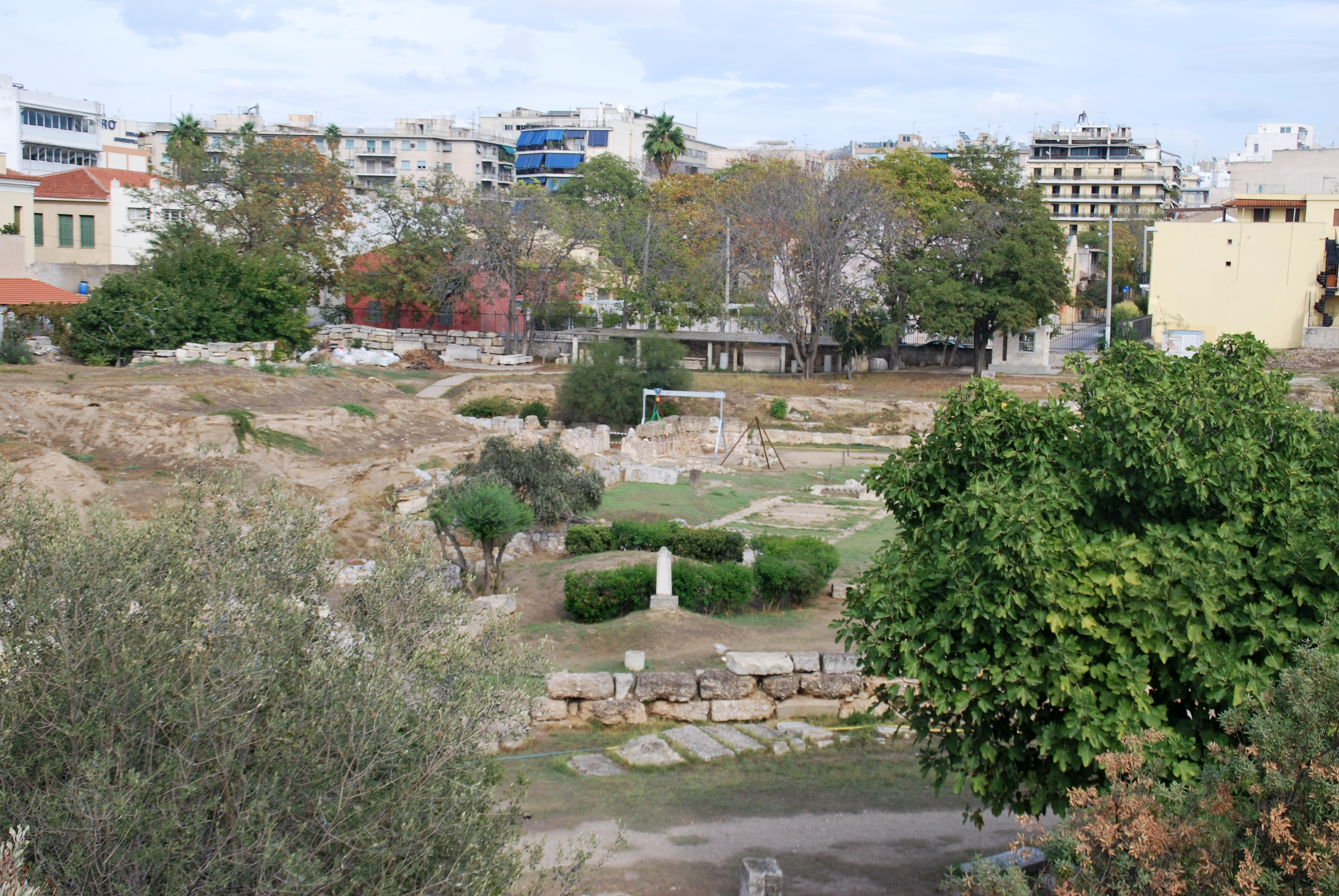 Kerameikos, der größte und wichtigste der Friedhöfe des antiken Athens.